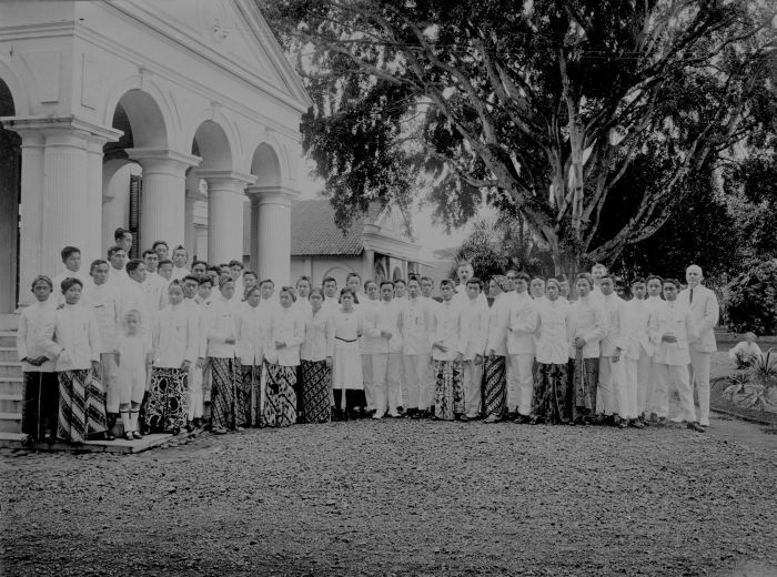 Group portrait 'Hogere Kweekschool' (HKS) at Bandung